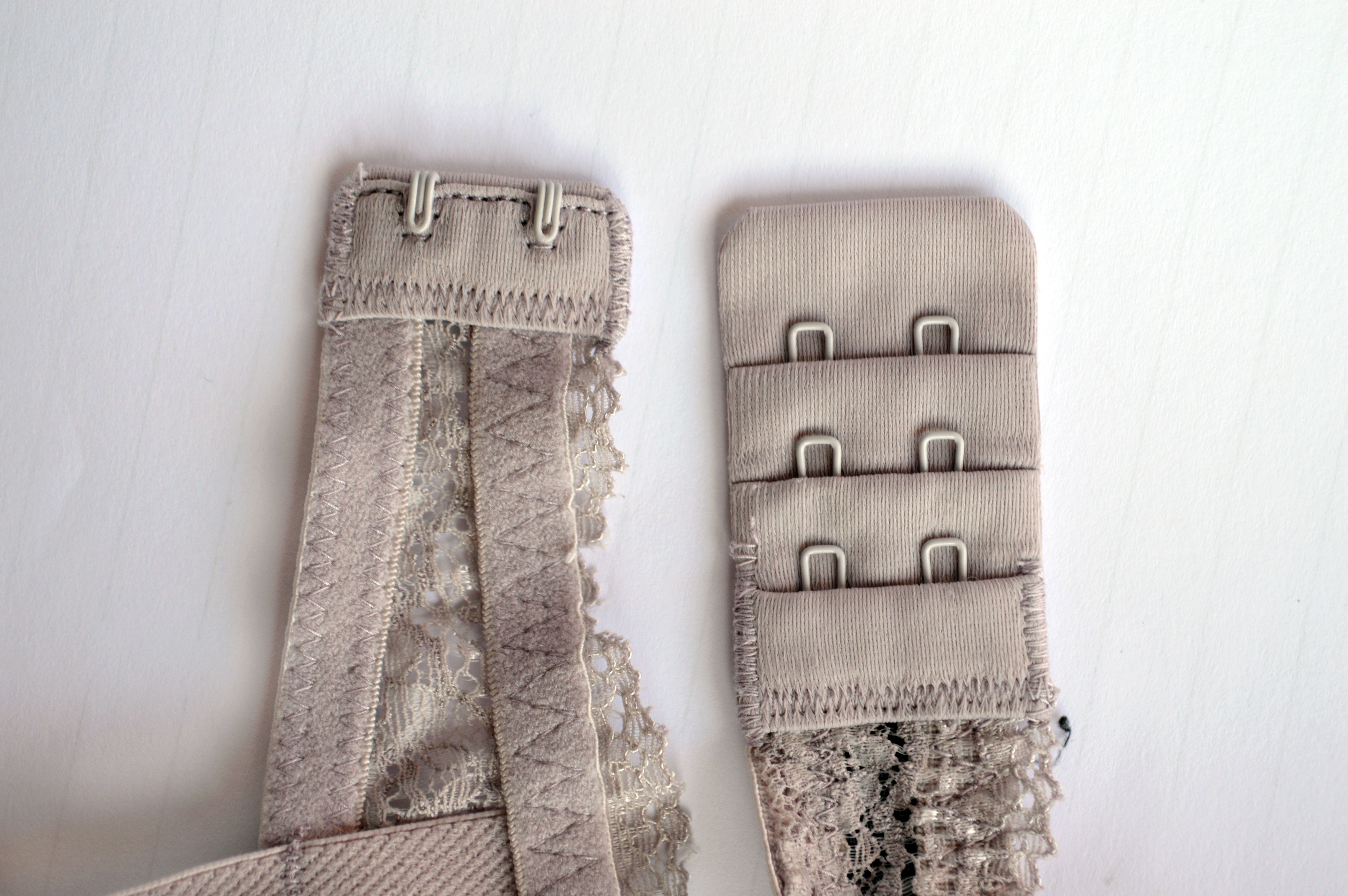 Two ends of the hook-and-eye closure of a brassiere, brand Esprit.